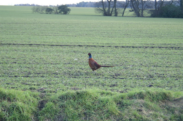 Cocksure. A pheasant struts about on land where shooting is not allowed